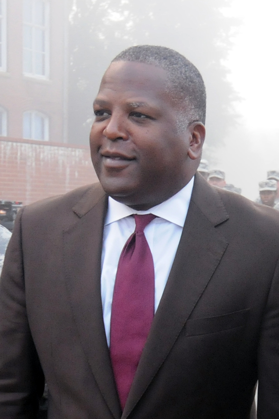 Army Maj. Gen. Robert Livingston, adjutant general, South Carolina National Guard; Columbia, S.C., Mayor Stephen Benjamin; Army Gen. Frank Grass, chief, National Guard Bureau, and Air Force Chief Master Sgt. Mitchell Brush, senior enlisted advisor to the chief of the National Guard Bureau, talk with South Carolina National Guard members and civilian responders during a visit to assess the National Guard response to severe flooding in support of civil authorities, Columbia, S.C., Oct. 14, 2015. (U.S. Army National Guard photo by Sgt. 1st Class Jim Greenhill) (Released)